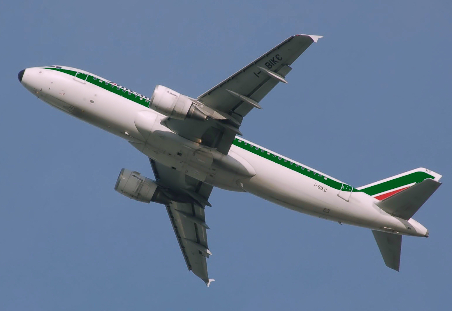 Alitalia Airbus A320-200 (I-BIKC) takes off from London Heathrow Airport, England. Photographed by Adrian Pingstone in January 2007 and released to the public domain.